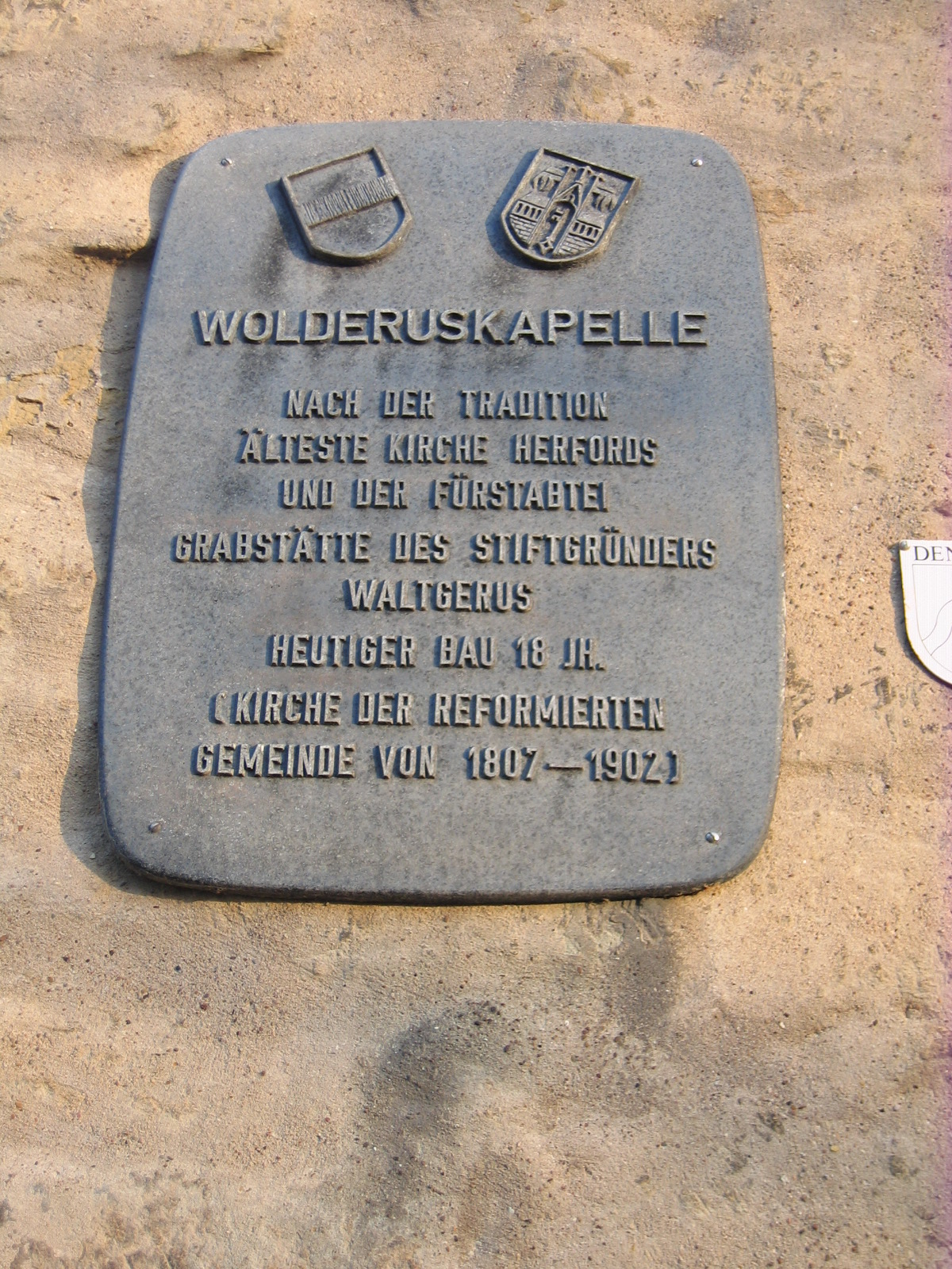 Wolderus chapel (both lutheran and greek-orthodox) next to Herford cathedral in Herford, District of Herford, North Rhine-Westphalia, Germany.